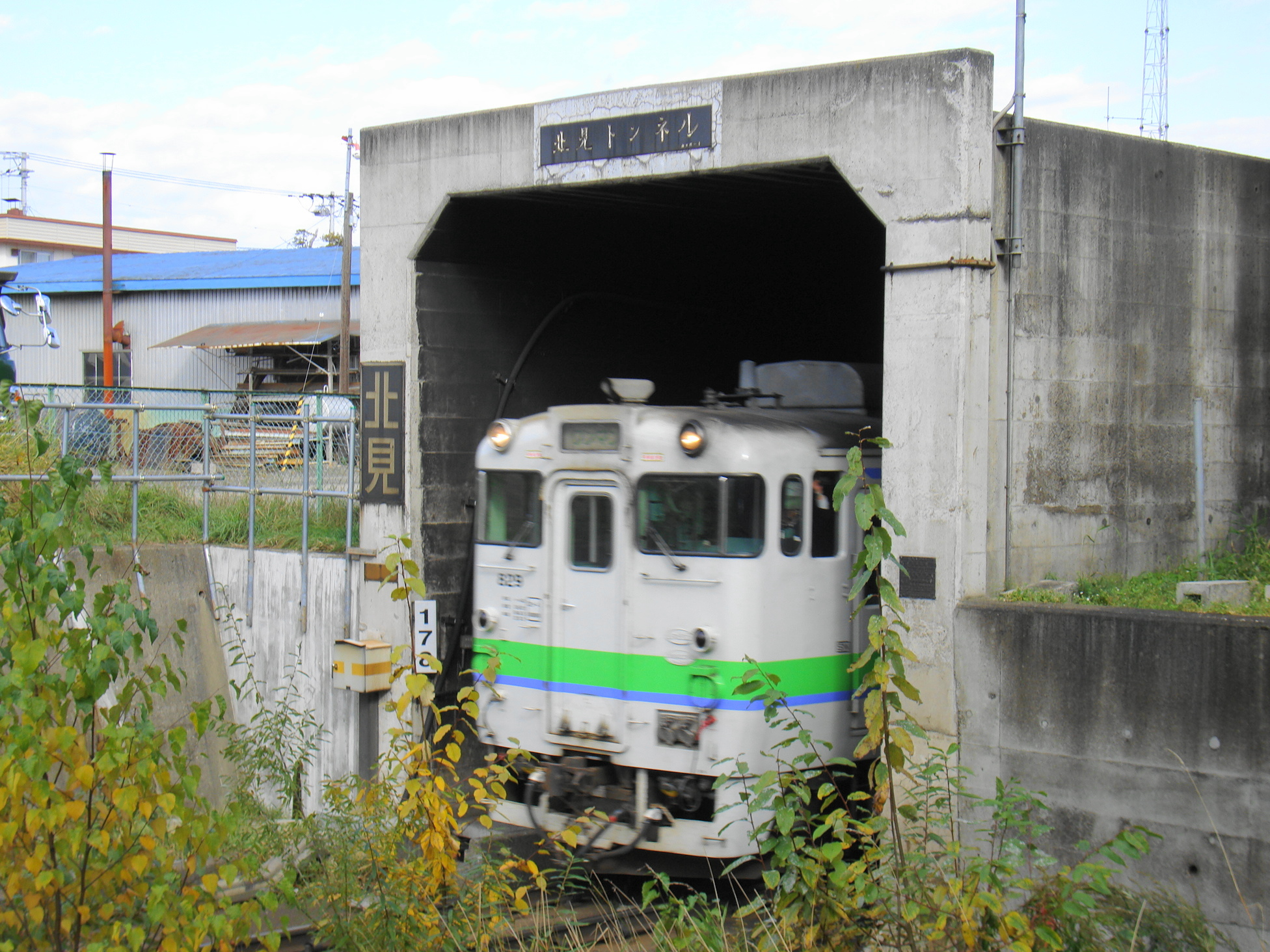 Nishi-Kitami portal of Kitami Tunnel on the Sekihoku Main Line